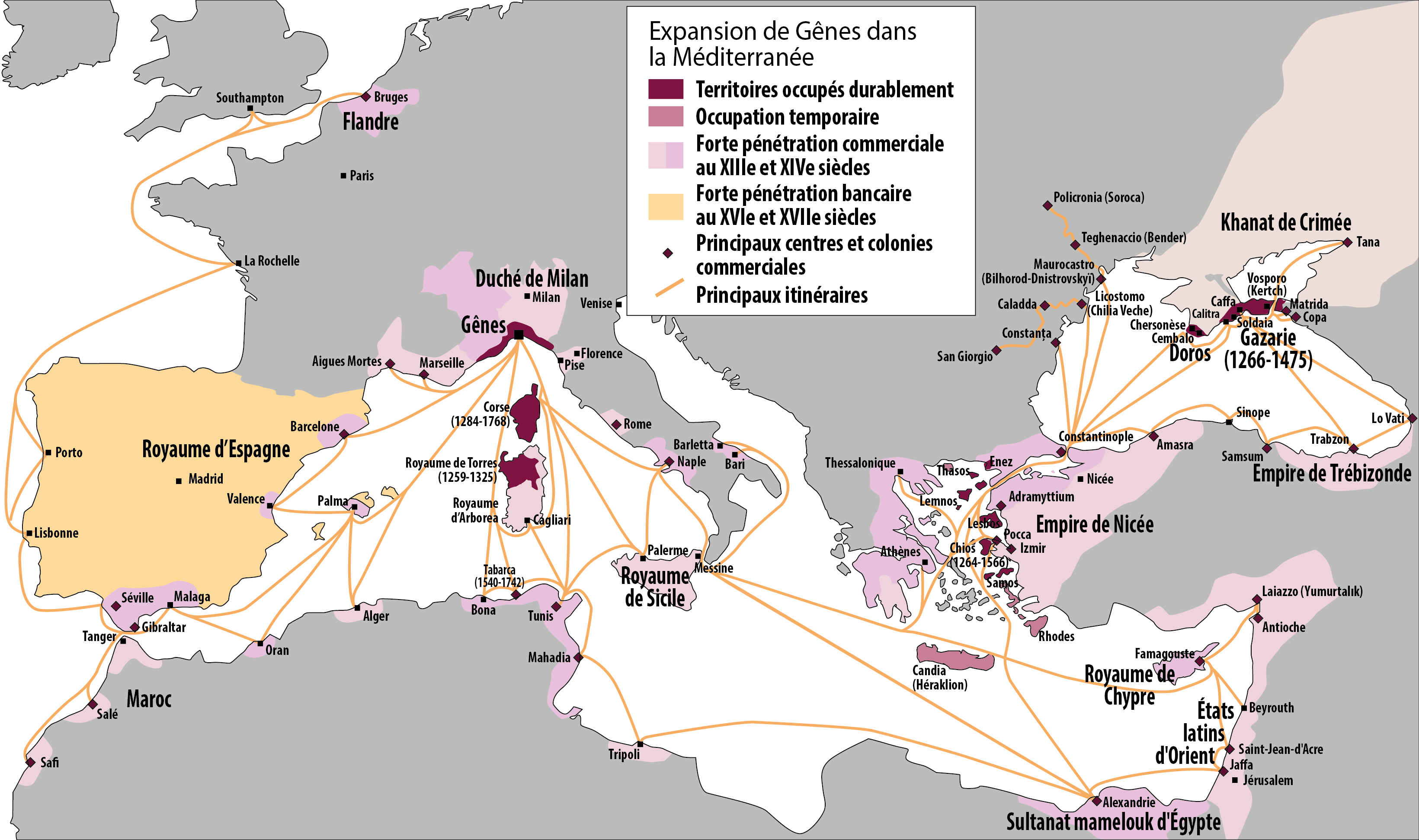 Expansion of Genoa around the Mediterranean and the Black Sea, translation of file Repubblica_di_Genova.png (source Codex Parisinus latinus (1395) in Ph. Lauer, Catalogue des manuscrits latins, pp.95-6)